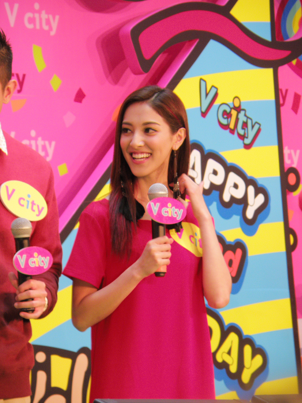 Grace Chan Hoi-lam, Hong Kong artist.